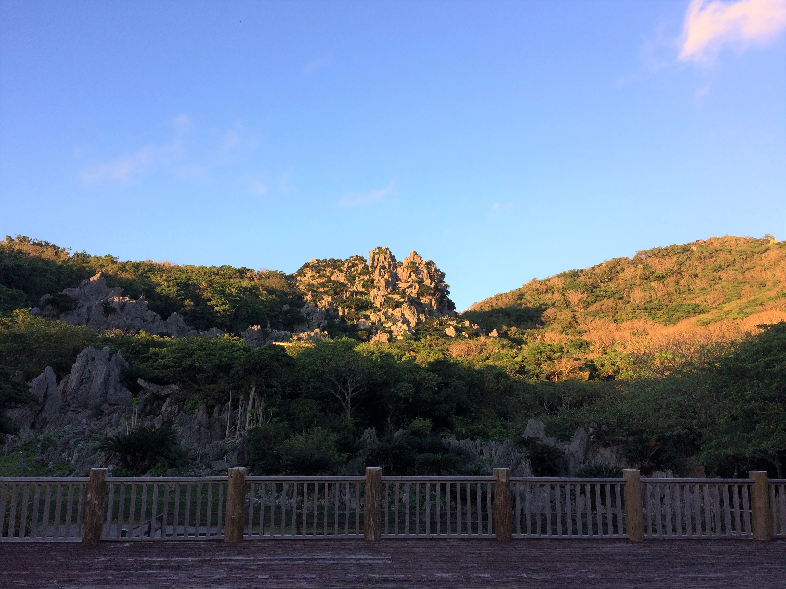 Asimui Rocky mountain